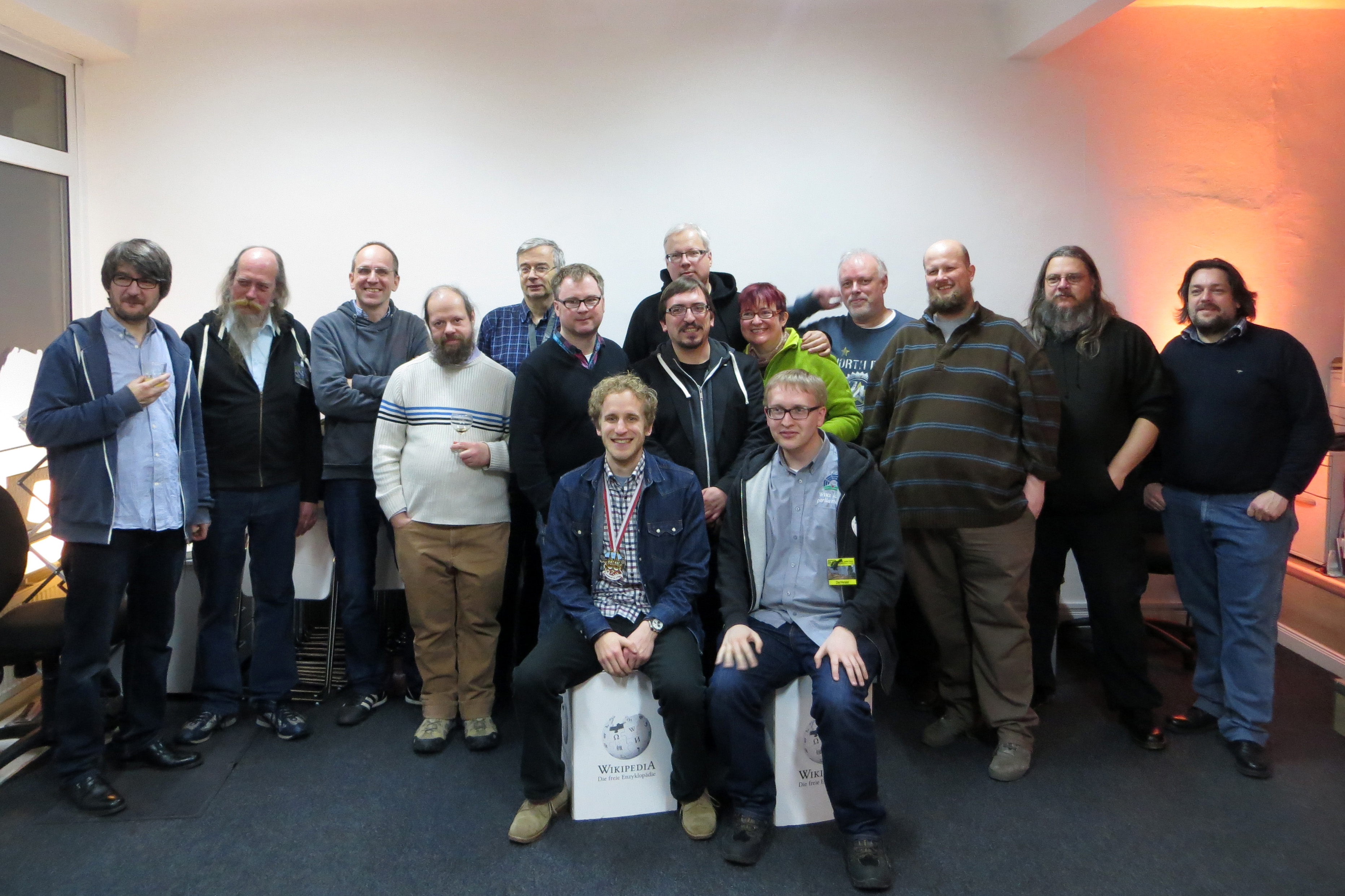 Opening of the Wikipedia:Kontor on Saturday, 14th February 2015 in Hamburg, Germany